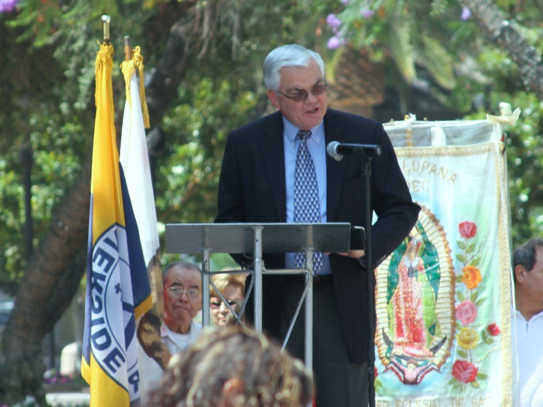 Ronald O. Loveridge at the unveiling of Cesar Chavez Monument